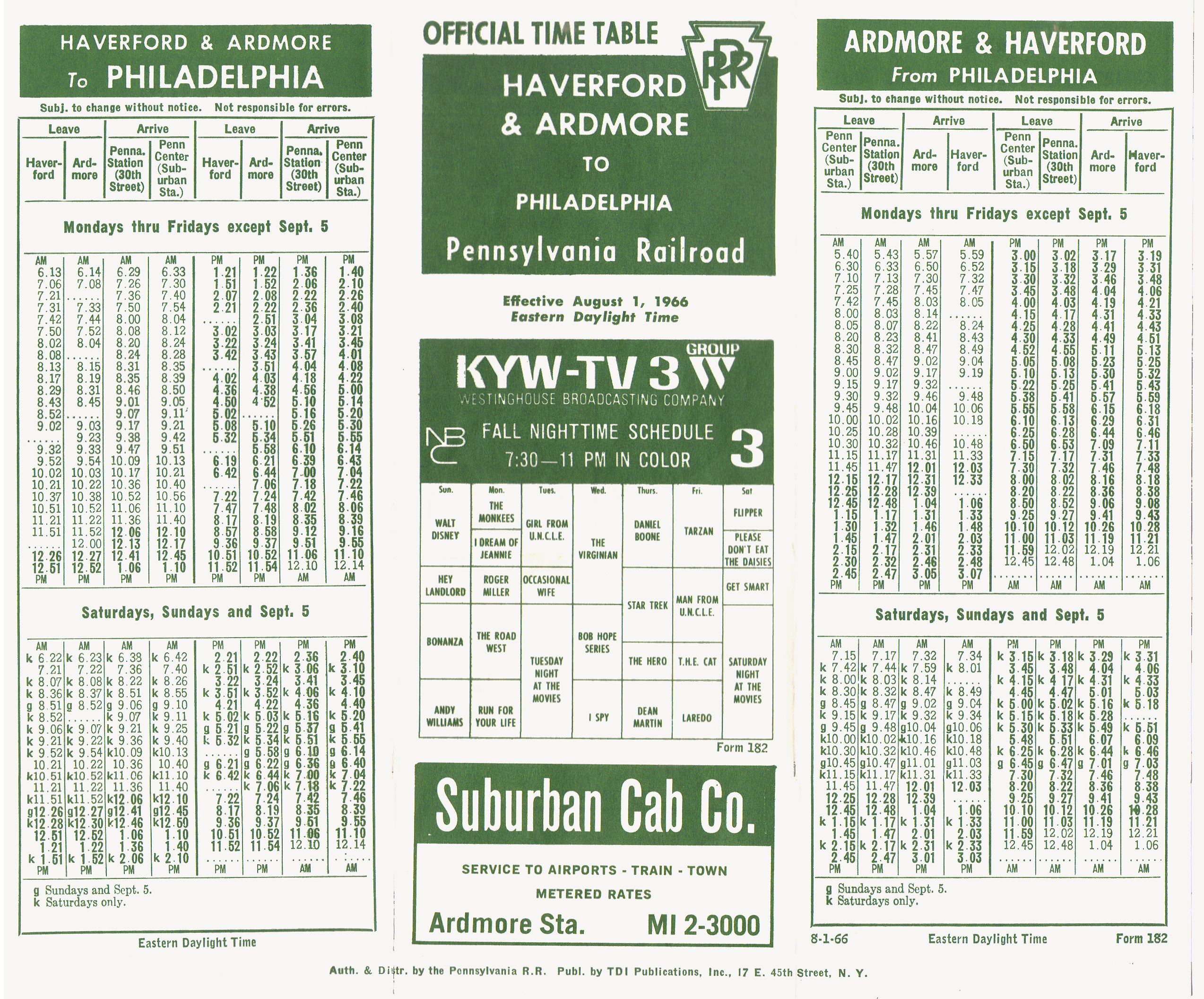 Pennsylvania Railroad (PRR) Haverford & Ardmore (PA) to Philadelphia "Main Line" commuter time table